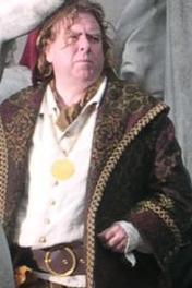 Timothy Spall filming Enchanted in New York City. Flickr image from: I have cropped the original image. ShareAlike 2.0 on Creative Commons.